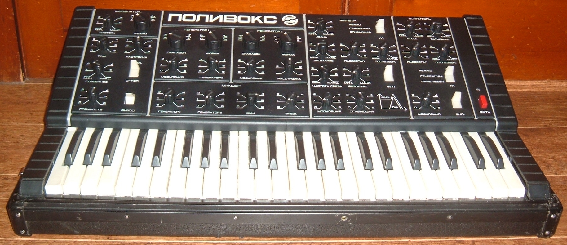 Polivoks